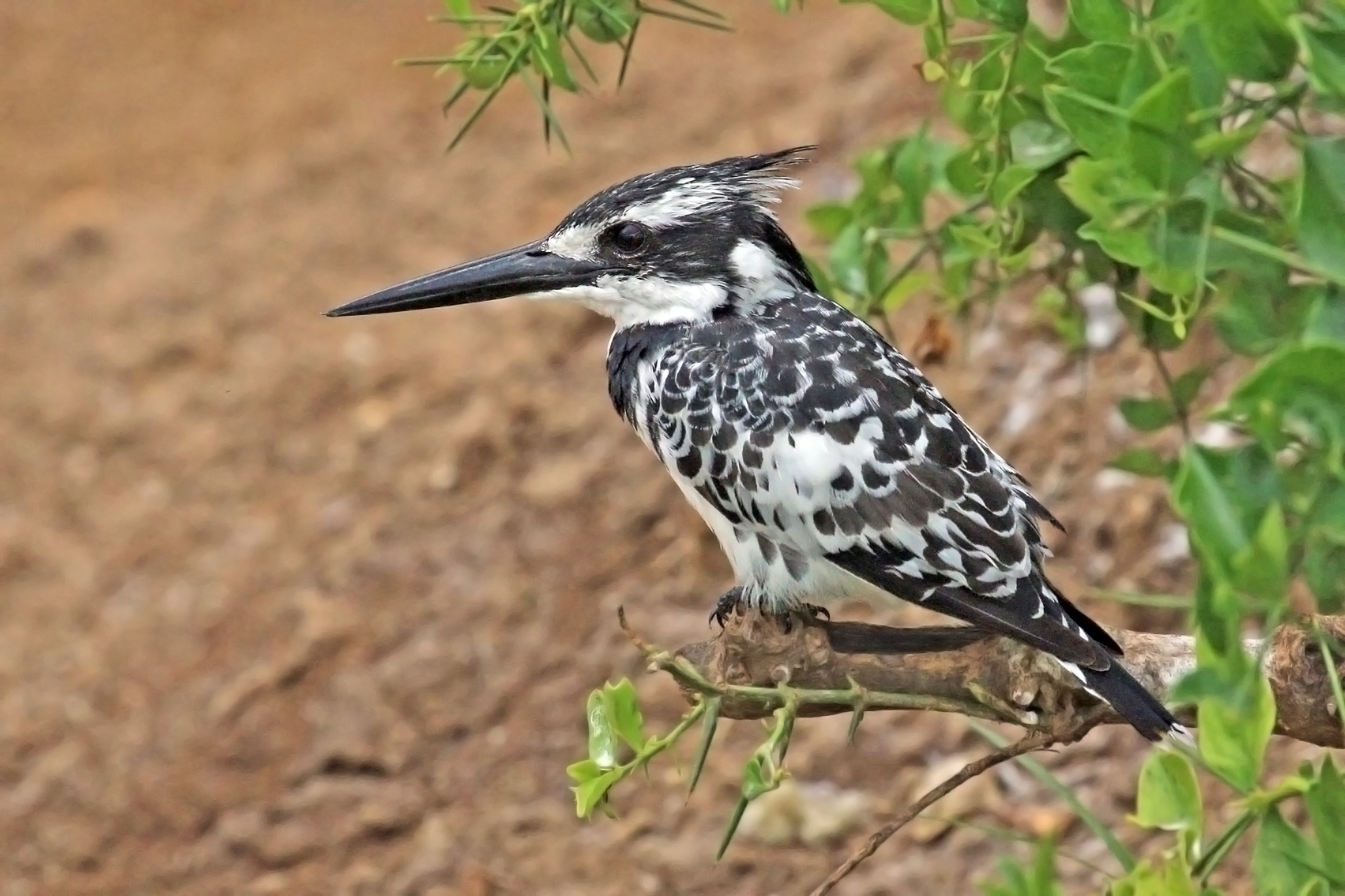 Pied kingfisher (Ceryle rudis rudis) male, Kazinga Channel, Uganda